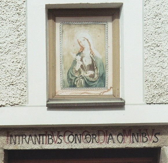 Door with chronogram in Bruneck (Italy).